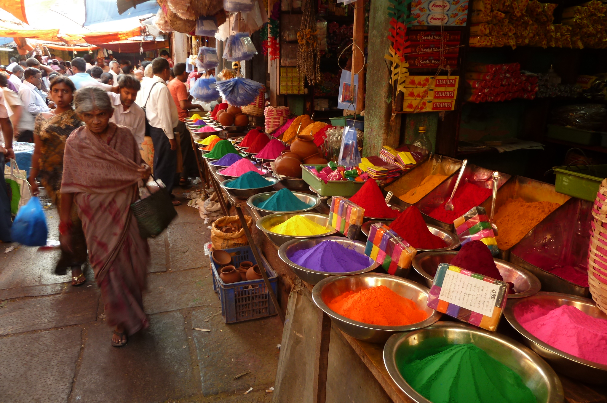 colours for the Holi festival at a market in Mysore, India